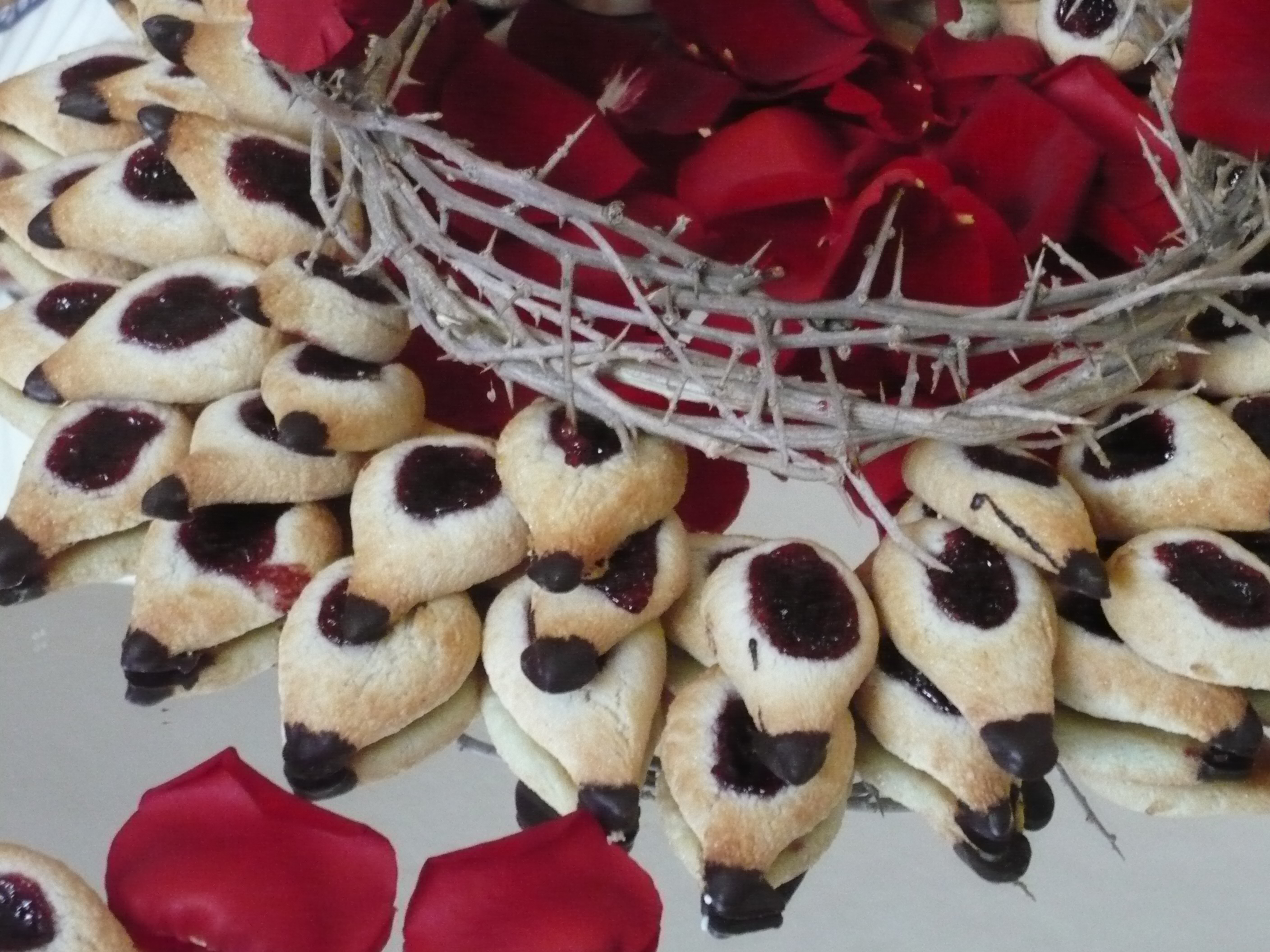 Spina santa of Caltanissetta, sweet used to be prepared for the Holy Crucifix festivity by the Sisters of the Benedectine Monastery of Caltanissetta